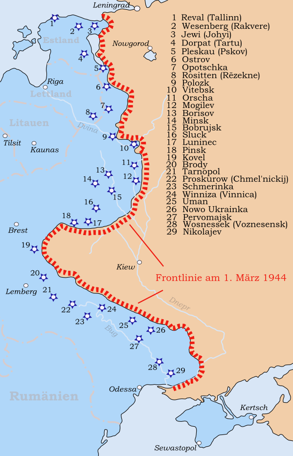 Map showing the location of the originally 29 "Feste Plätze" (fortified places), which were introduced by Adolf Hitler in March 1944 to stabilize the Eastern Front.